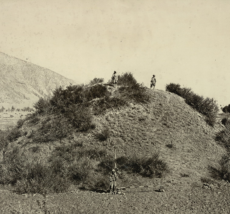 Photograph of a Buddhist stupa mound near Baramulla in Jammu and Kashmir, taken by John Burke in 1868. Buddhism was established in Kashmir from the third century BC but declined by the 8th century AD, eclipsed by Hindu Vaishnavism and Shaivism. Two of the most important sites for Buddhist remains in the Kashmir valley are Harwan near Srinagar and Ushkur near Baramulla. Located 55 km from Srinagar, Baramulla, once an important trading centre under the British at the western entrance to the Kashmir valley, spreads along the banks of the Vitasta (Jhelum). On the left bank is the ancient site of Hushkapur (now Ushkur) said to have been founded by Huvishka, a ruler from the famed Kushana dynasty that ruled portions of Afghanistan and India during the first three centuries AD. When the 7th century Chinese traveller Hieuan Tsang entered Kashmir, he stayed at Ushkur and described it as a flourishing Buddhist centre. This general view of the unexcavated stupa, with two figures standing on the summit, and another at the base with measuring scales, is reproduced in Henry Hardy Cole's Archaeological Survey of India report, 'Illustrations of Ancient Buildings in Kashmir,' (1869), in which he wrote, 'The locality which includes the remains of a Monastery is called the 'Jayendra Vihar', and the erection is assigned by local tradition to one 'Praverasena' in A.D. 500. Excavation required.' Stupa bases and other remains were excavated at this mound, and among the discoveries were finely modelled terracotta heads.